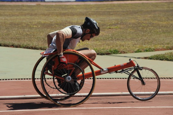 Athlete Clayton Hélio da Costa in a athletism Paralympic.